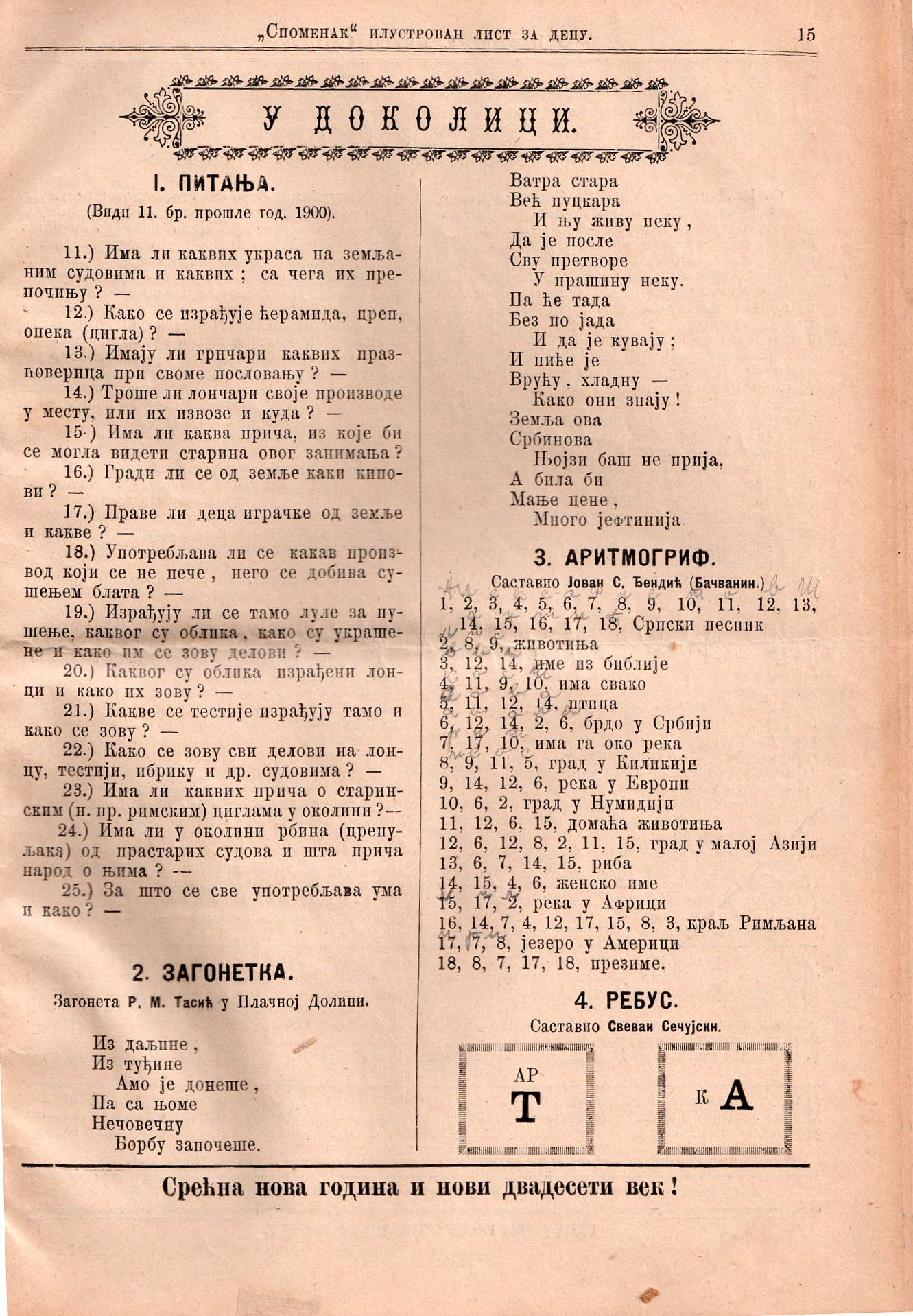 Spomenak, children magazine, number 1, 1901